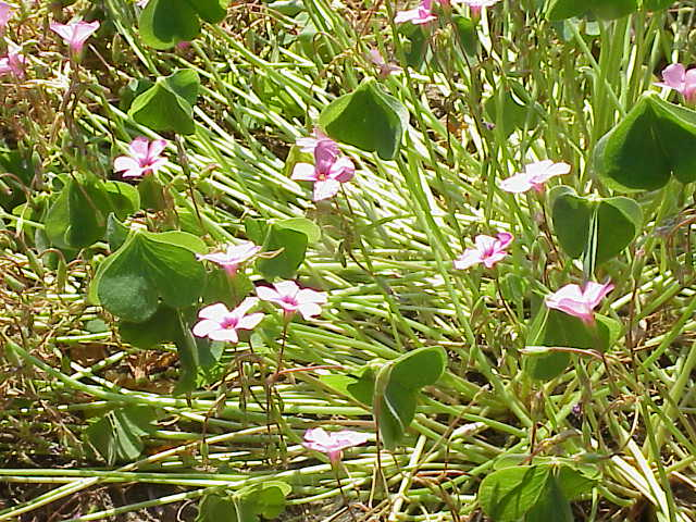 Species: Oxalis articulata rubra Family: Oxalidaceae Image No. 1